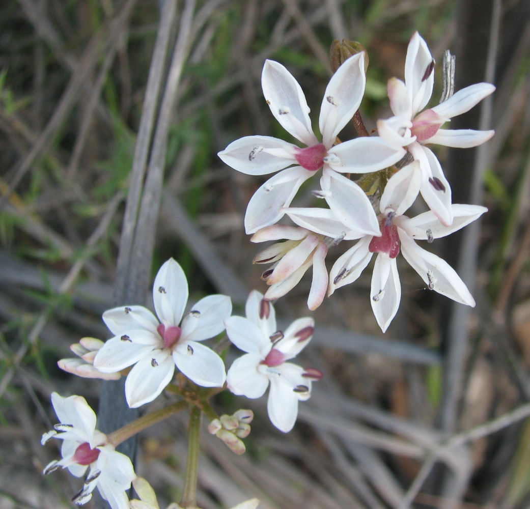 Burchardia umbellata Anglesea Heath, Victoria, Australia